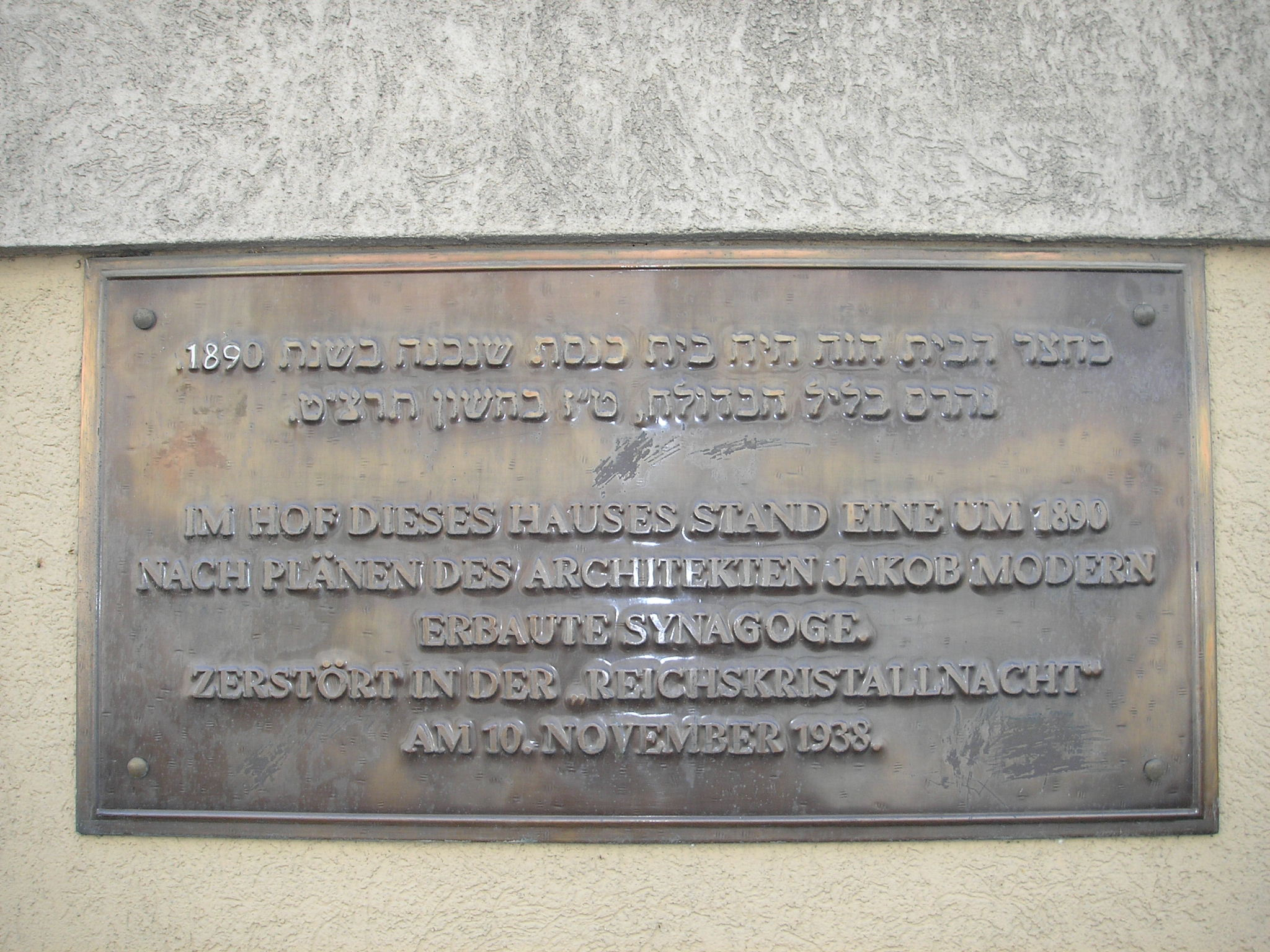 Memorial plaque of the Währinger Tempel synagogue, in the XVIII. district Währing in Vienna, Schopenhauerstraße 39. It was destroyed by the Nazis in 1938 and not rebuilt.